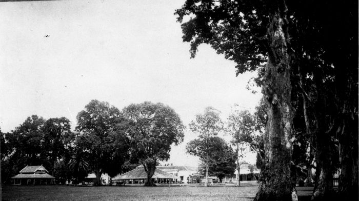 The residence of of the regent in Pandeglang